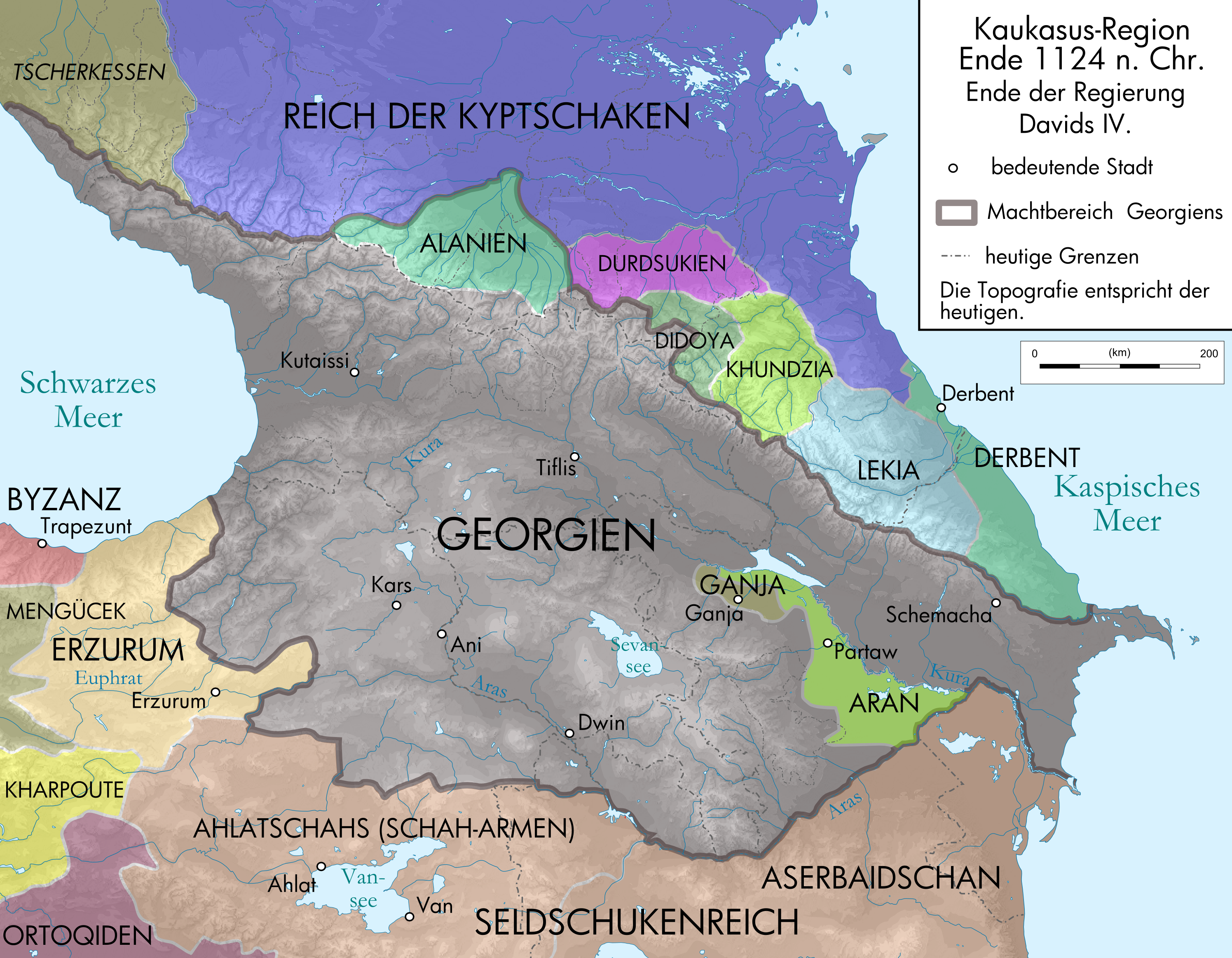 Map of Caucasus Region around 1124 AC in German.